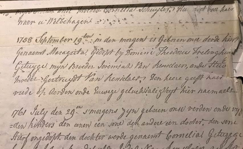 Peggy Schuyler birth date, Schuyler family Bible